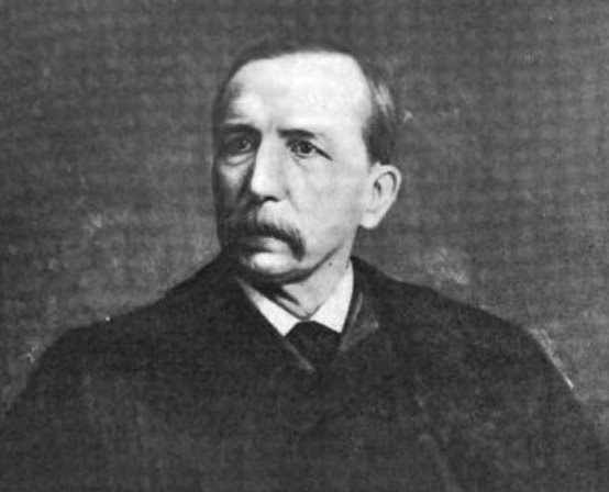 Henry Baldwin Harrison (Connecticut Governor)